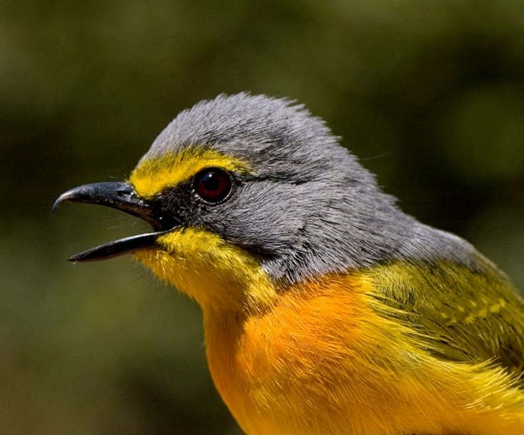 Sulphur-breasted Bushshrike trapped in Polokwane Game Reserve, South Africa